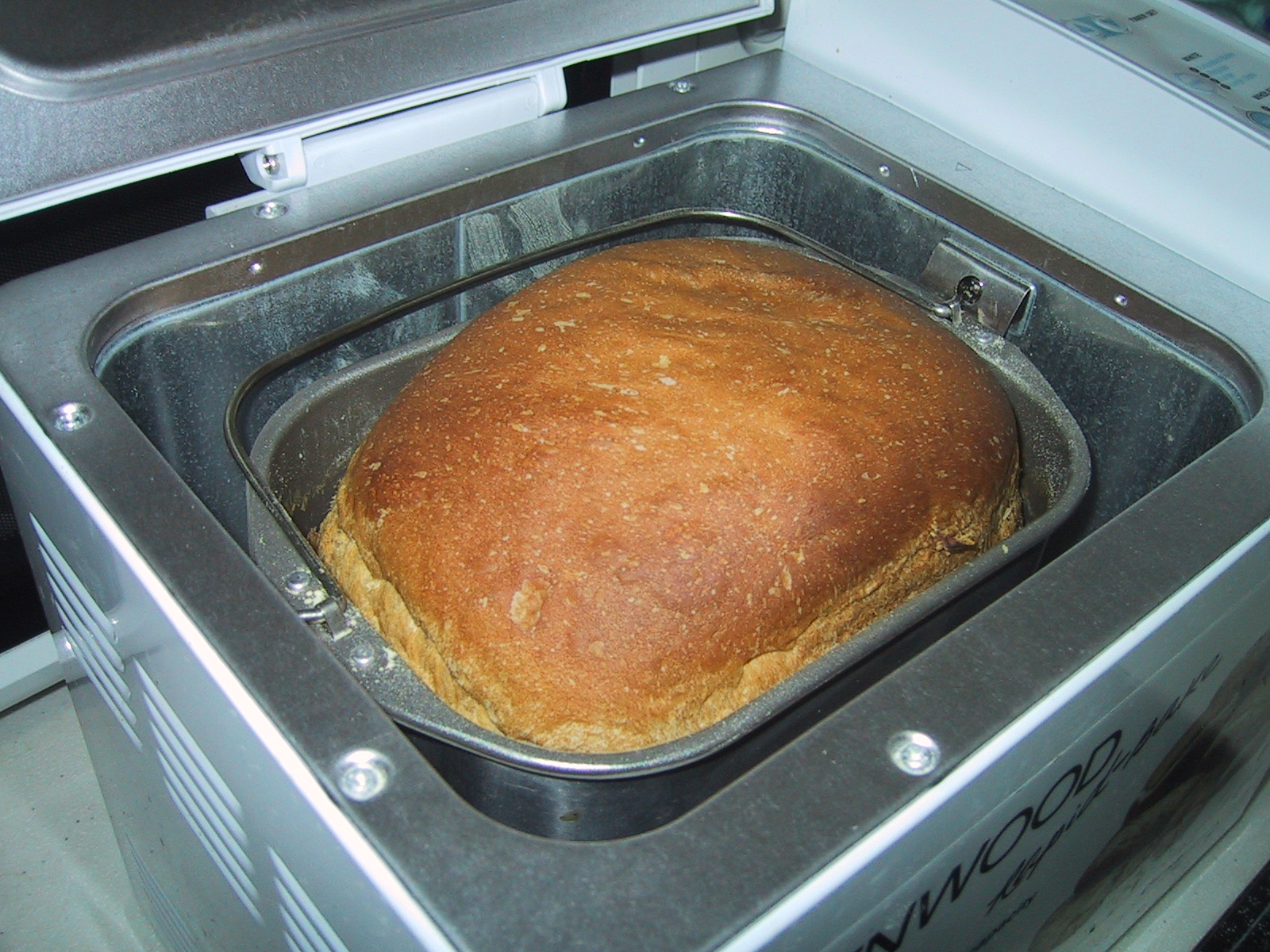 Breadmachine with freshly baked bread.